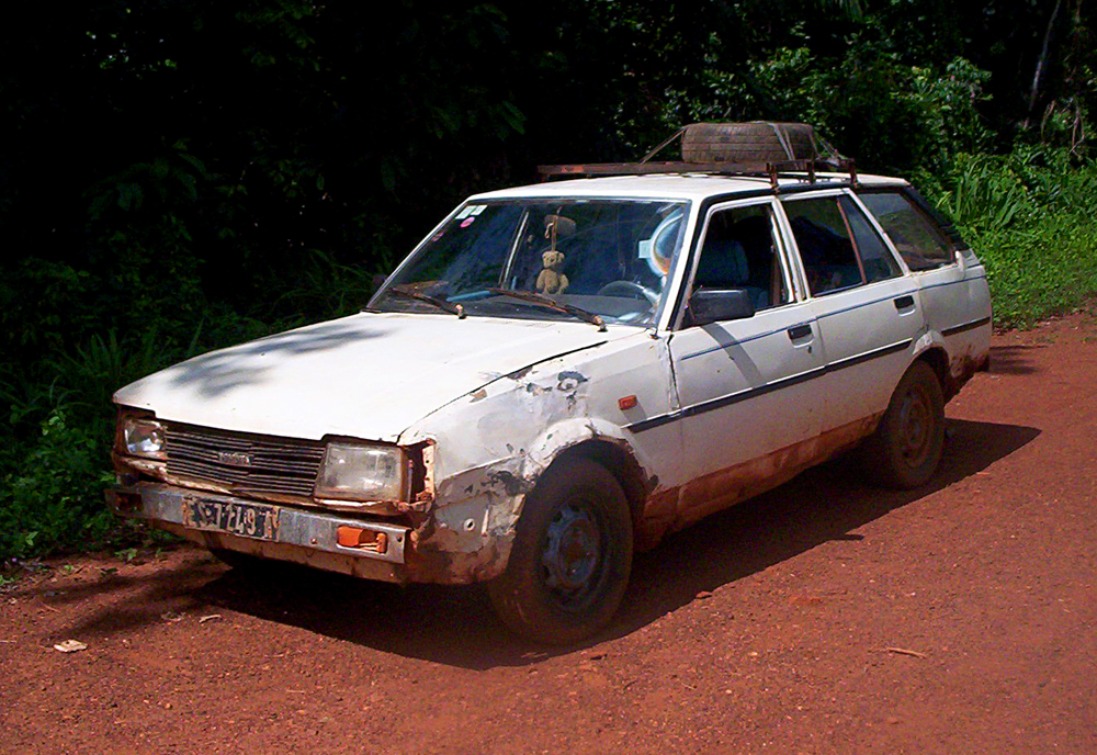 A Cameroonian bush taxi of the station-wagon type. 1983-1987 Toyota Corolla E70 wagon. Taken by uploader with Kodak CX6200 digital camera on 1 May 2005.